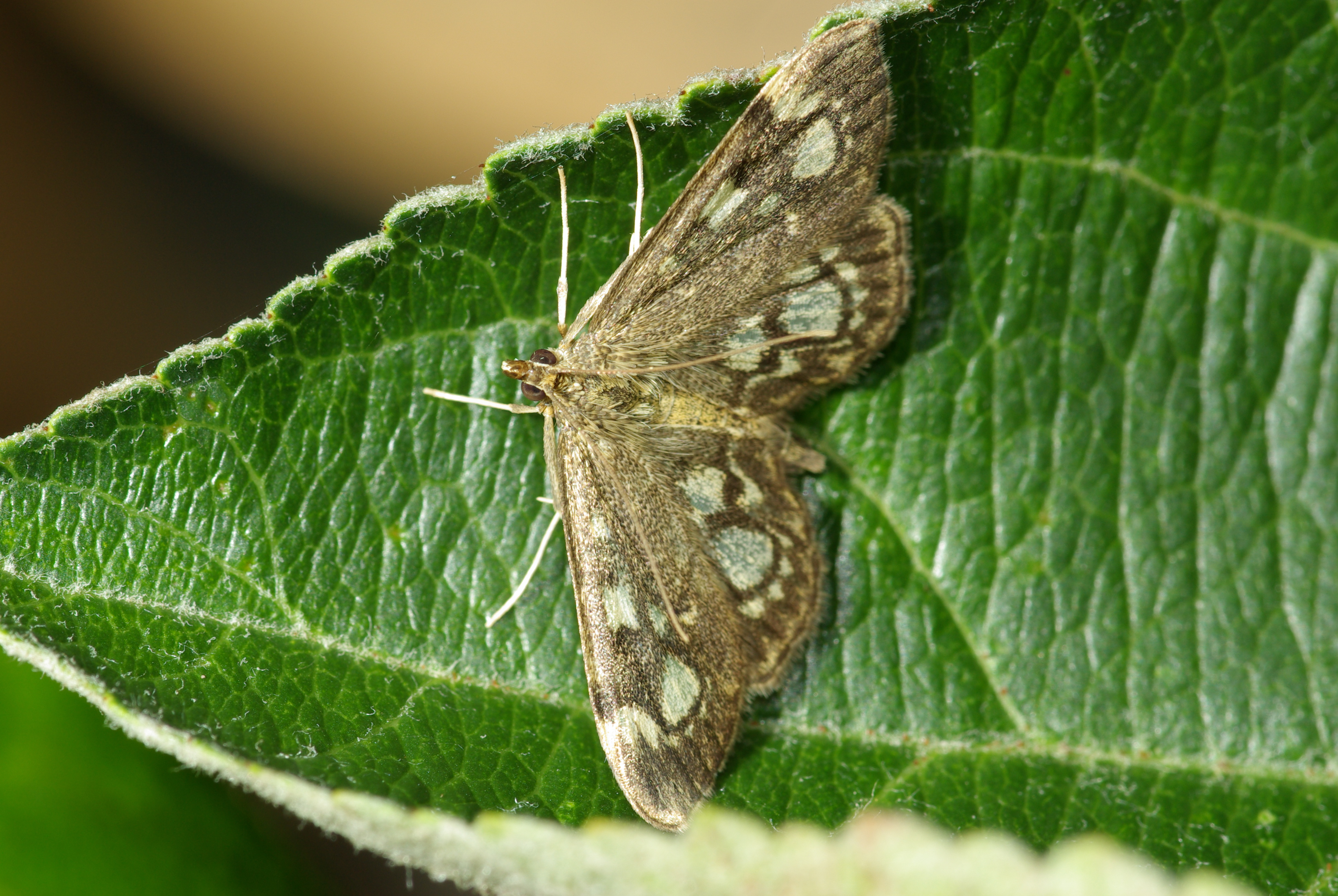 A Eurrhypara coronata taken (night) in Vendée, French.